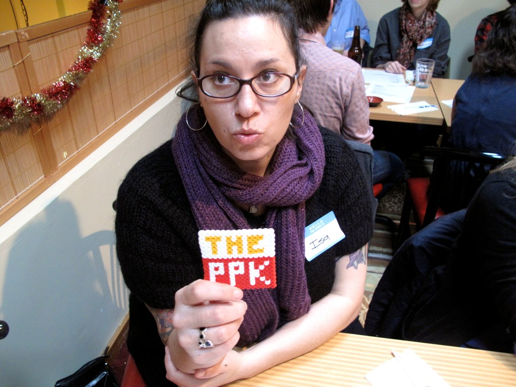 Photograph of Author Isa Chandra Moskowitz.